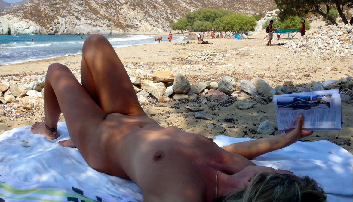 Psilli Amos Beach, Patmos, Greece